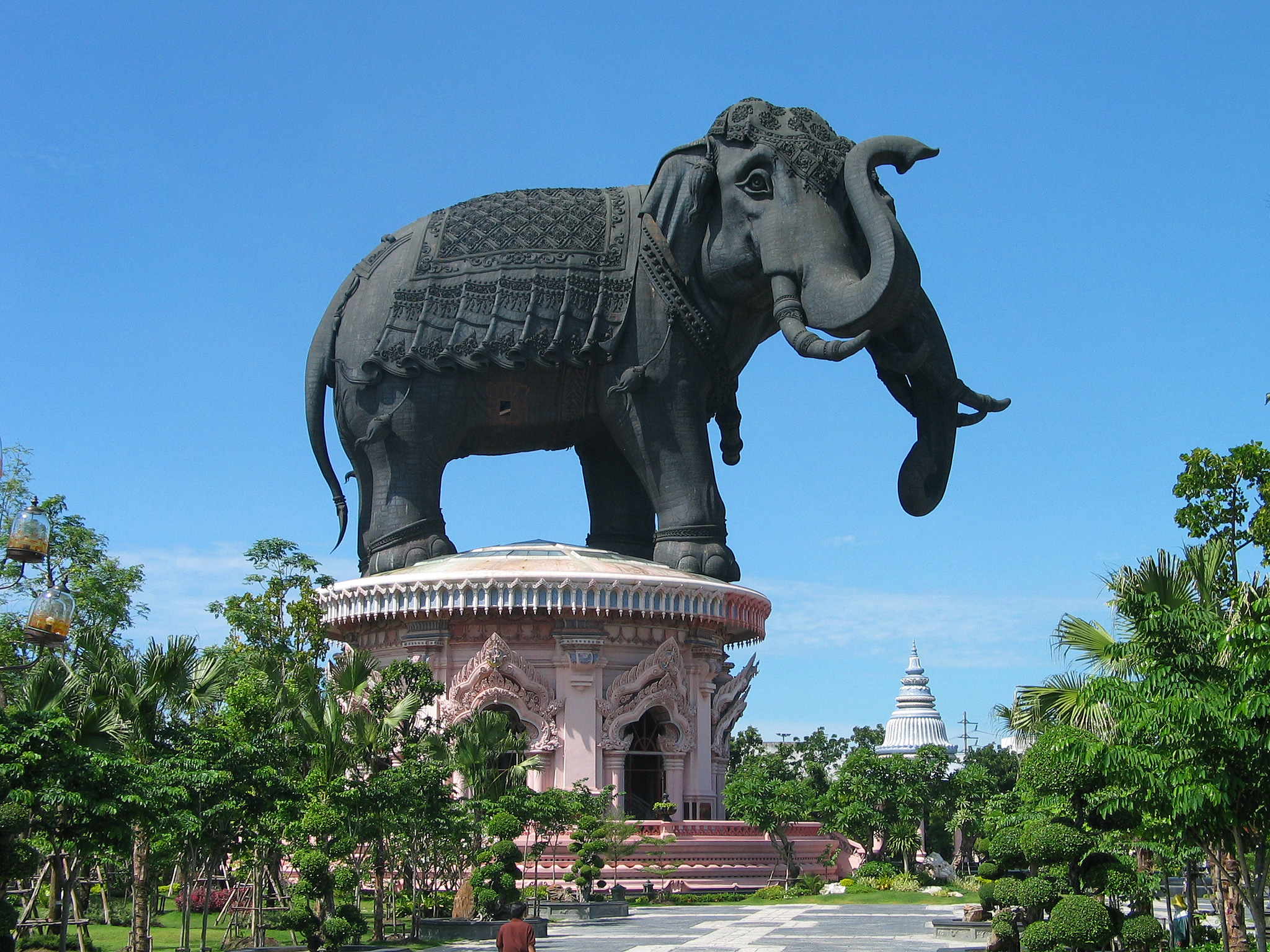 Erawan museum, Samut Prakan, central Thailand